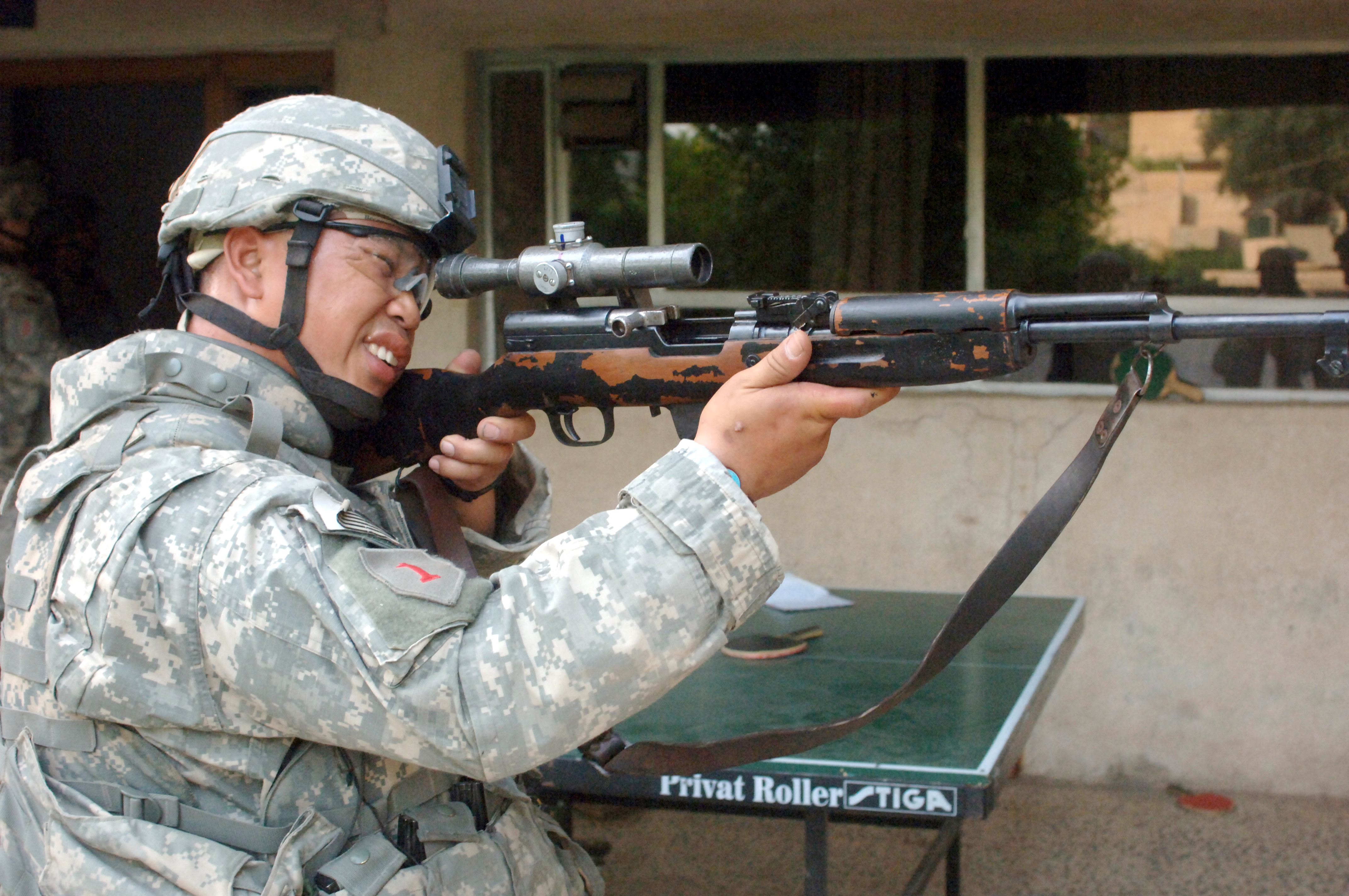 U.S. Army Sgt. John Takai, of Bravo Company, 1st Battalion, 28th Infantry Regiment, 4th Brigade Combat Team, 1st Infantry Division, inspects a sniper rifle confiscated during a cordon and search of a house in the Jihad area of Baghdad, Iraq , May 8, 2007 . The Soldiers received a tip that illegal weapons and munitions were being stored in the house. (U.S. Army photo by Staff Sgt. Bronco Suzuki) (Released)